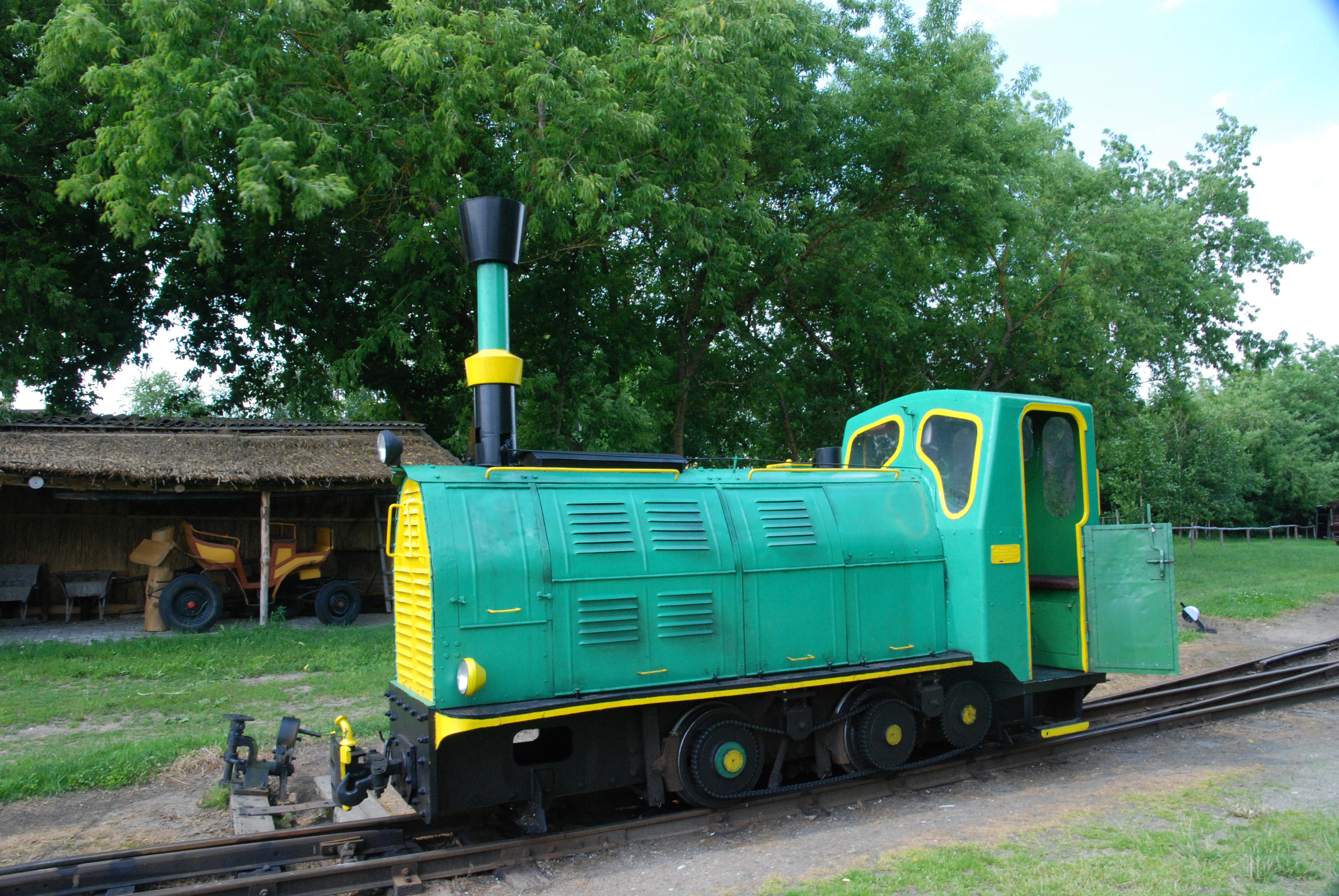 Narrow gauge locomotive WLs40 or 50 (with not typical chain drive) in Płociczno-Tartak, Poland. This photo from Podlaskie Voievodeship was taken during Polish Wikiexpedition 2009 set up by Wikimedia Polska Association. The making of this document was supported by Wikimedia Polska. Muzeum wąskotorówki w Płocicznie